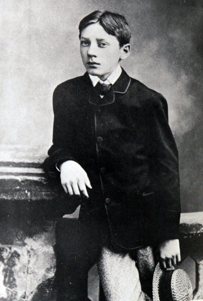 Period photograph